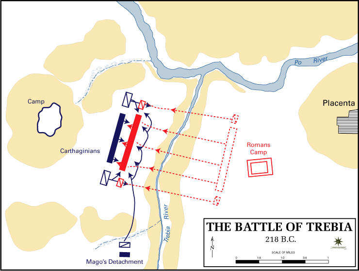 The battle of Trebia, 218 B.C., second Punic War, between Carthaginians and Romans.